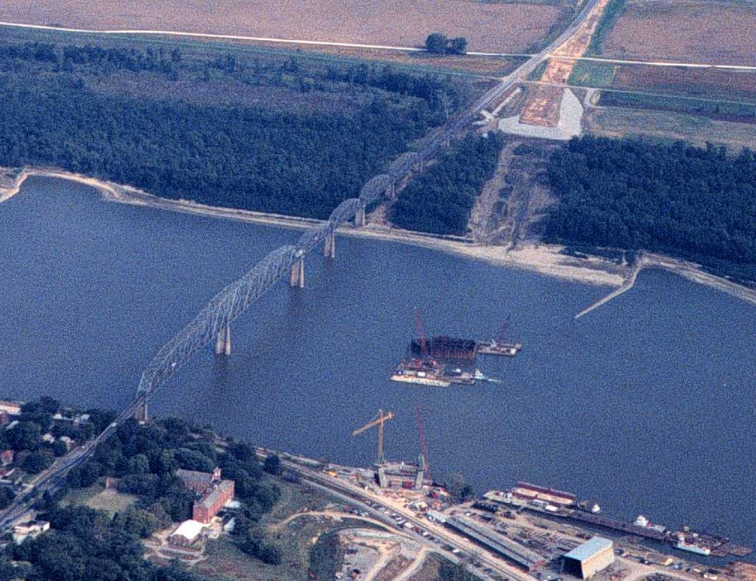 Mississippi River Highway Bridge at Cape Girardeau, MO. Completed in 1928 and demolished in 2004. Its replacement is under construction in this image.